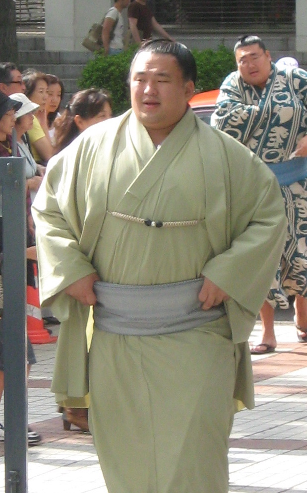 taken at Sep 2008 tournament